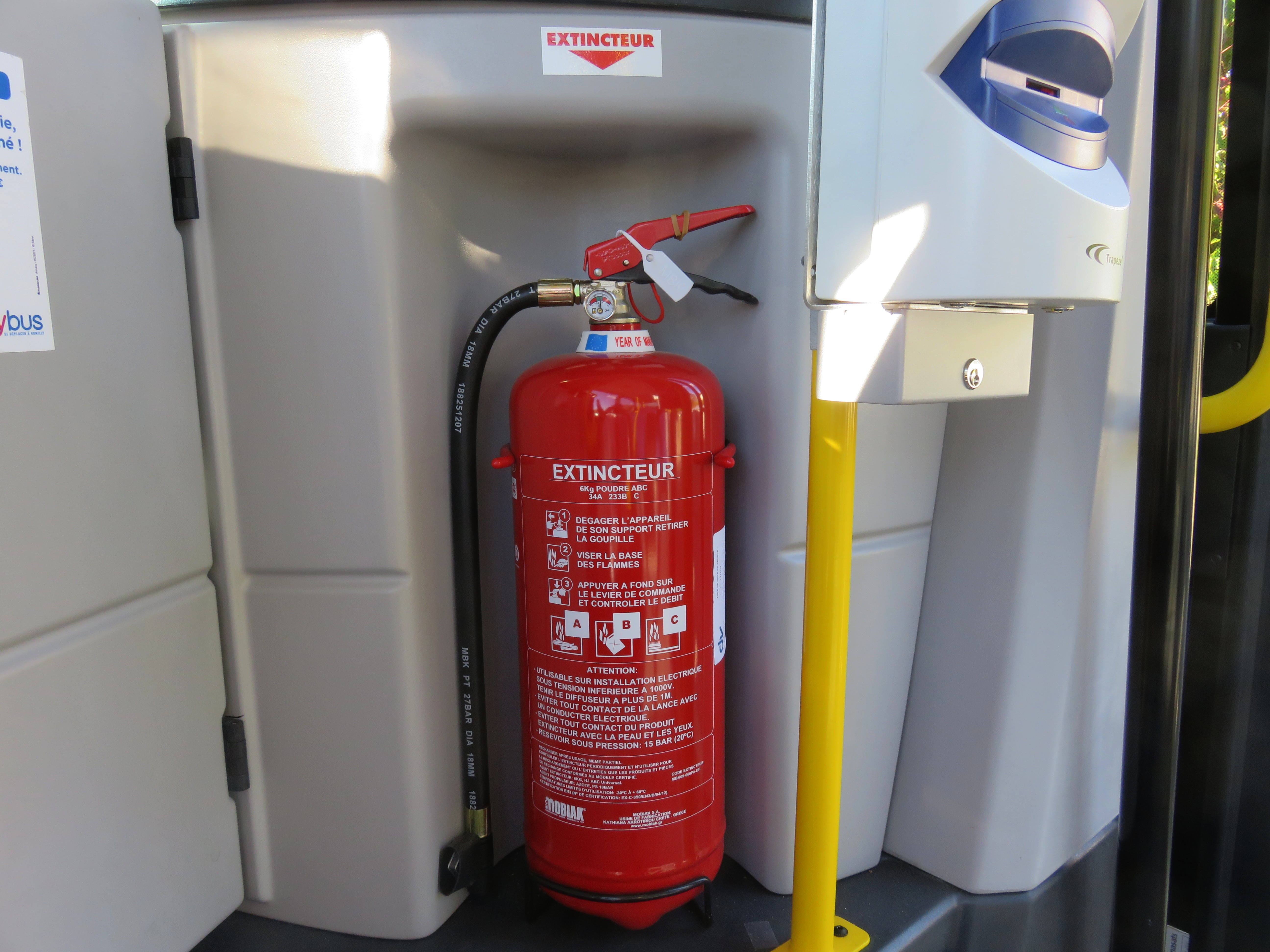 A fire extinguisher onboard of a Dietrich City 29 (n°1 of the French agglomeration community Rumilly Terre de Savoie).